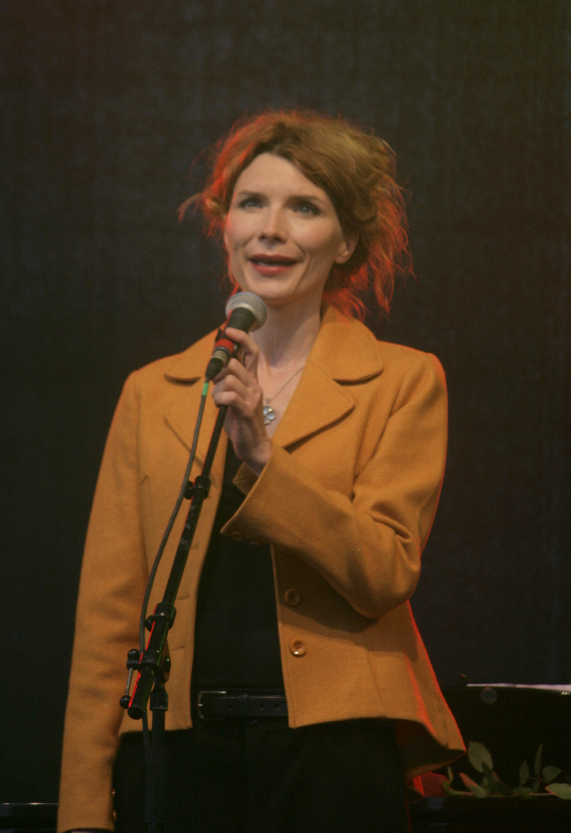 Singer Herborg Kråkevik led the joint singing of Nordahl Grieg's poem To the Youth on the ‘rose march’ tribute for the victims of the 2011 terror attacks in Norway.